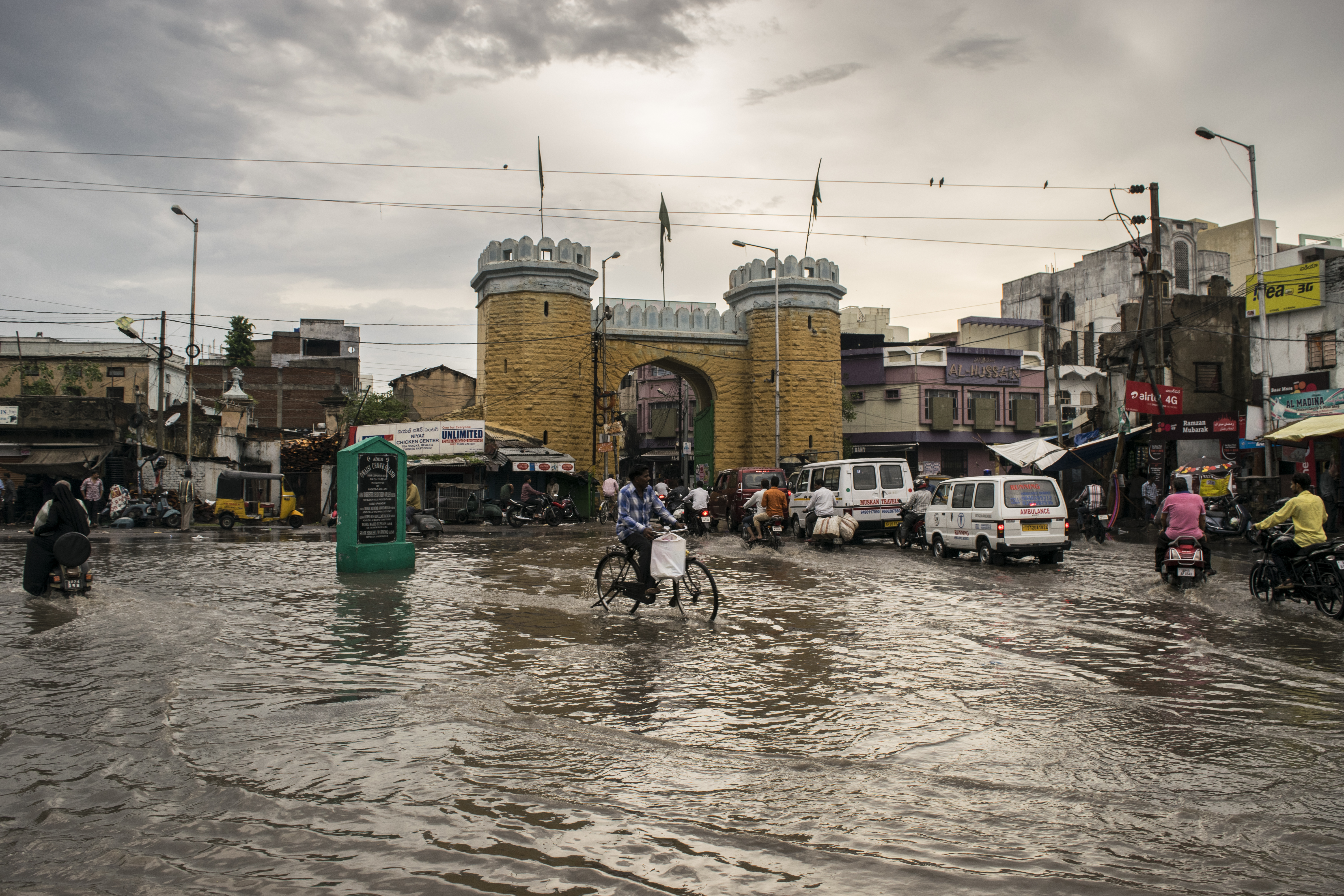 Dabeerpura darwaza